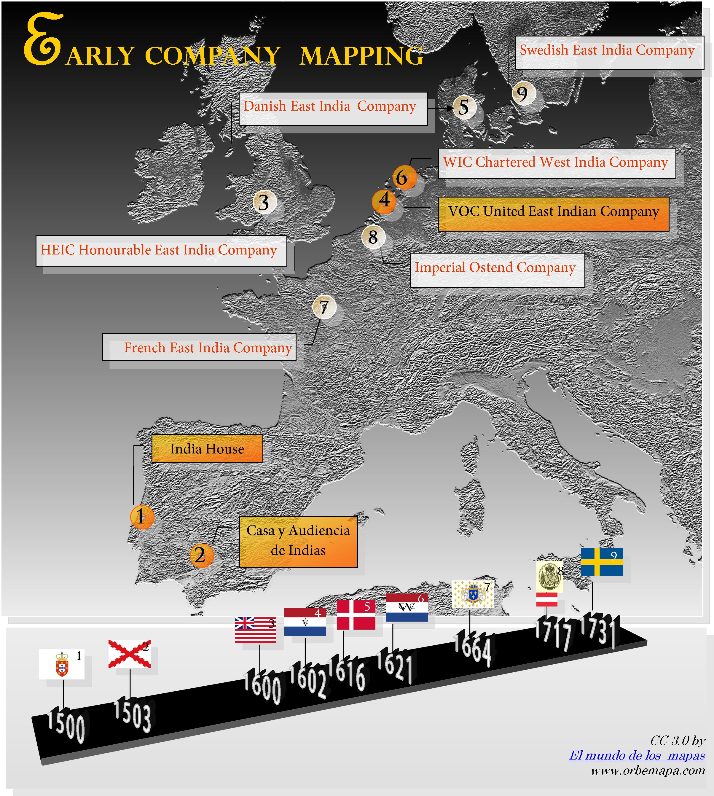 Map of the first European corporations and the timeline of their creation